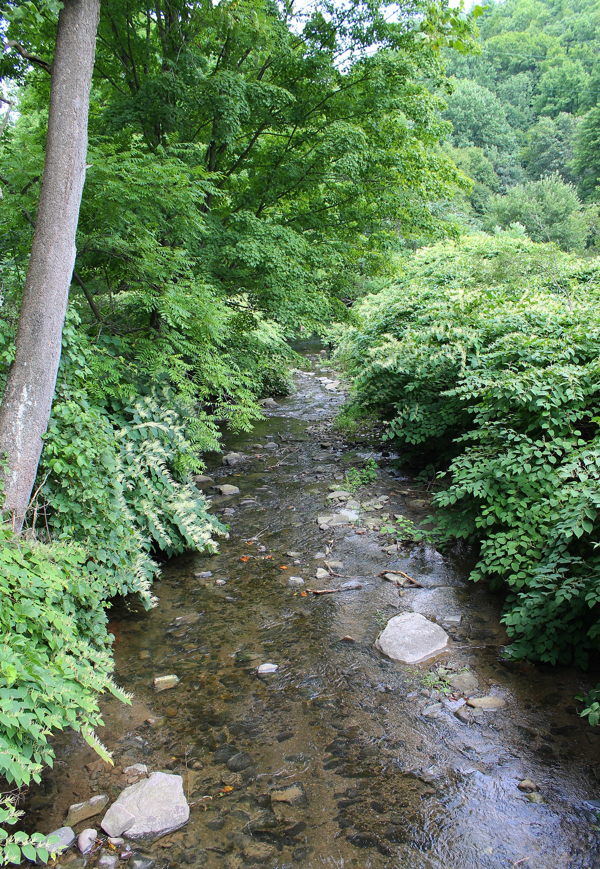 Whitelock Creek, a tributary of the Susquehanna River in Wyoming County, Pennsylvania and Luzerne County, Pennsylvania, looking upstream.